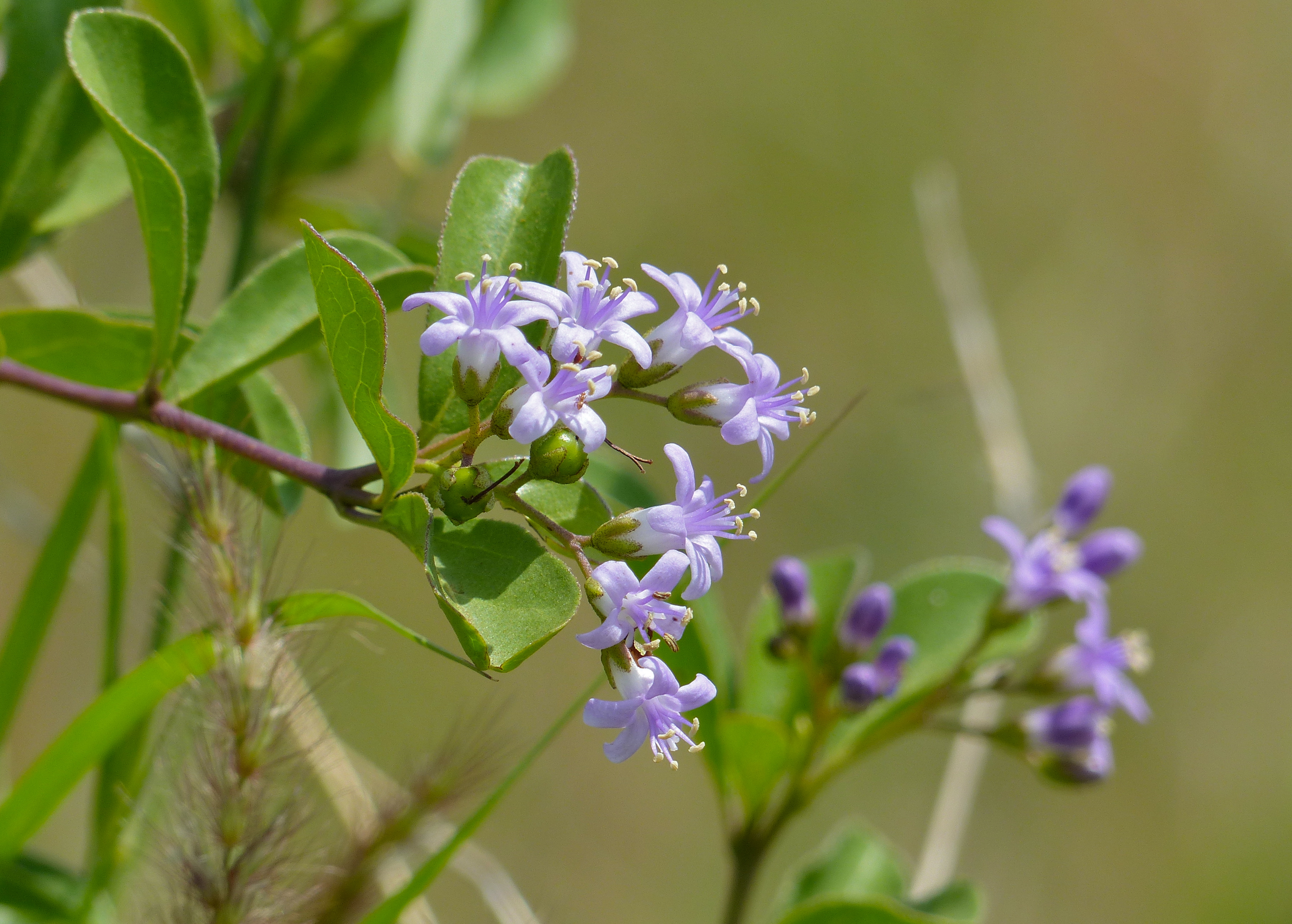 S28 Road South of Lower Sabie, Kruger NP, SOUTH AFRICA